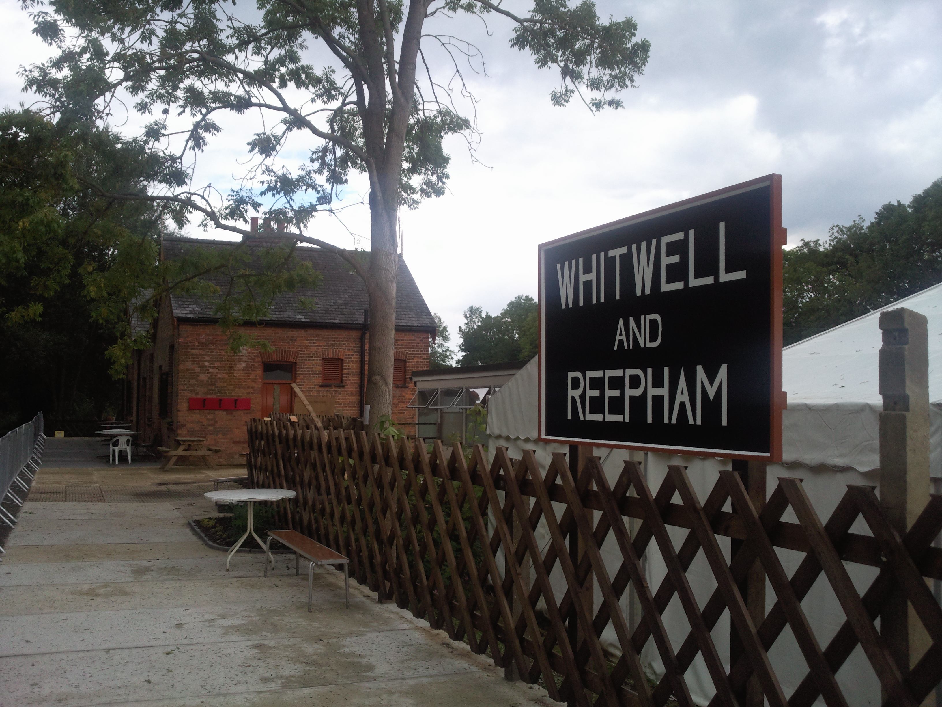 The station buildings and out of use platform at Whitwell and Reepham